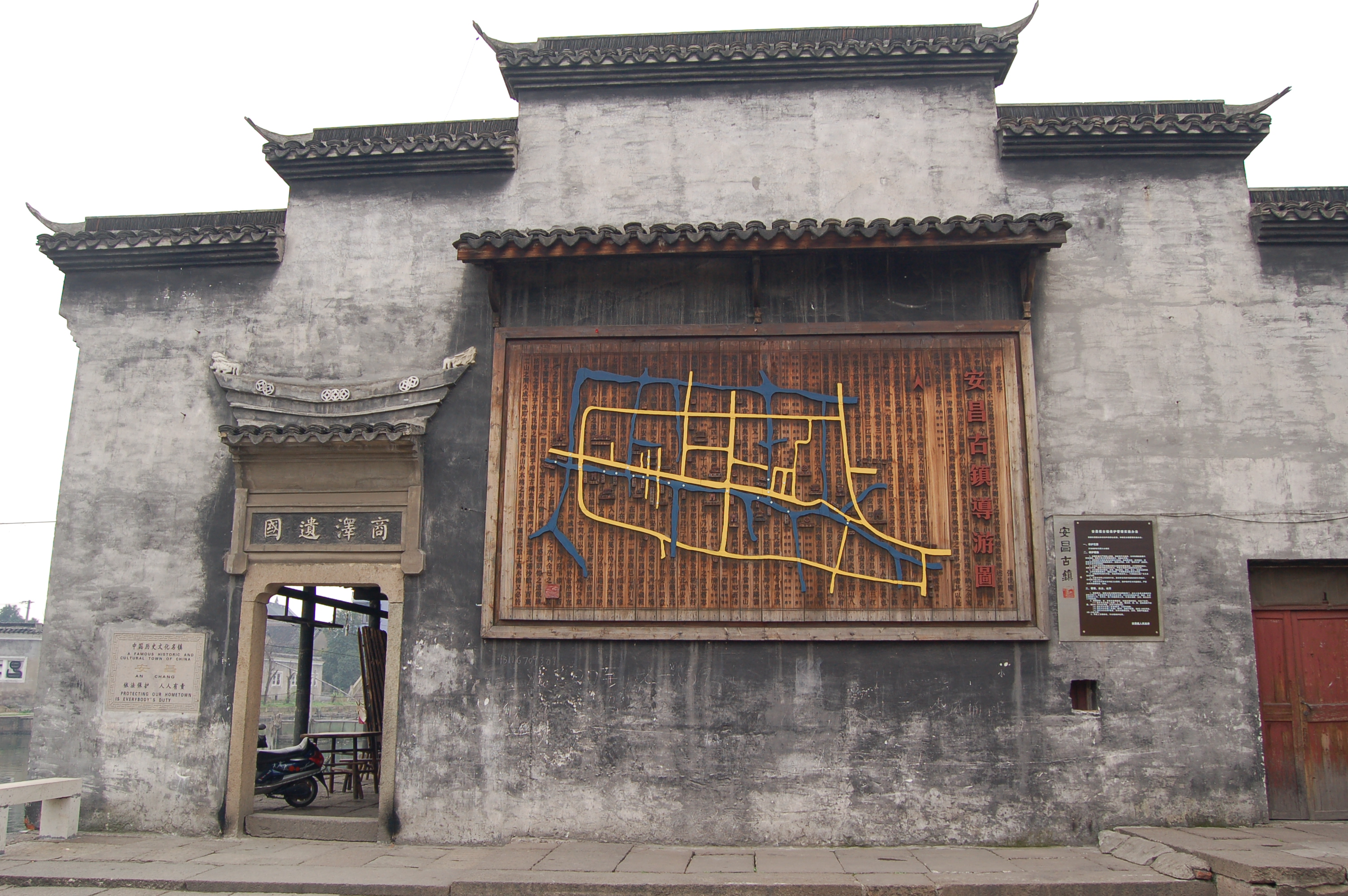 AnChang Town